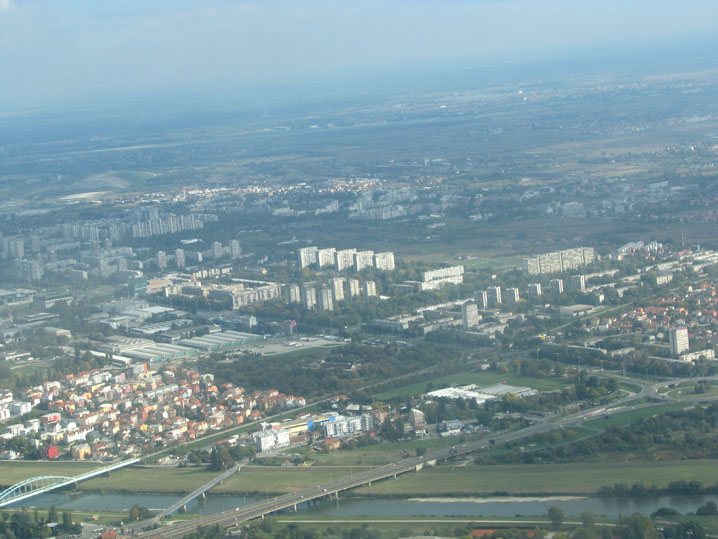 Novi Zagreb, Croatia